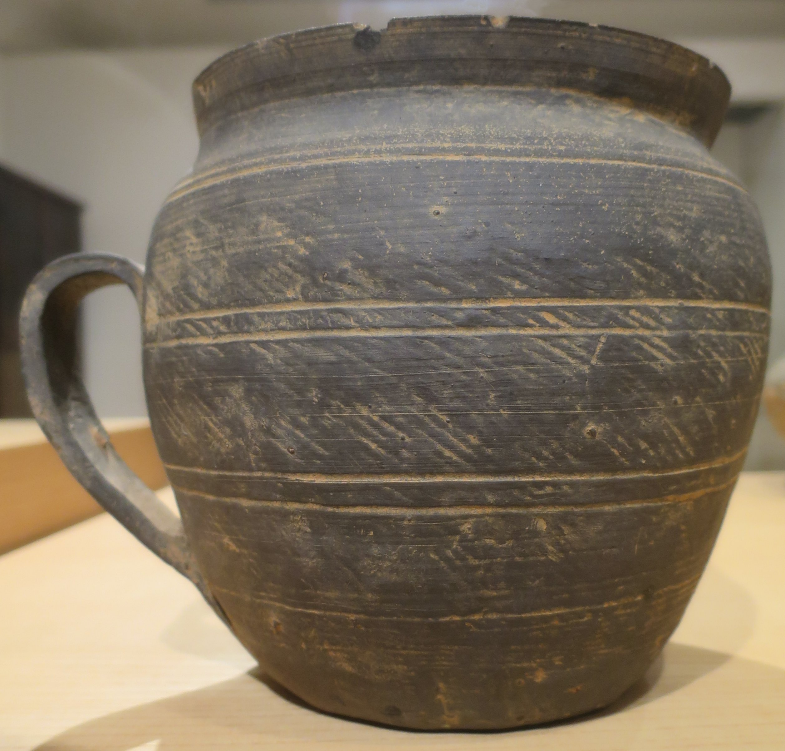 Cup from Korea, Three Kingdoms-Kaya/Silla period, 5th-6th century, stoneware, Honolulu Museum of Art, accession 5554.1. Handle is a later addition.